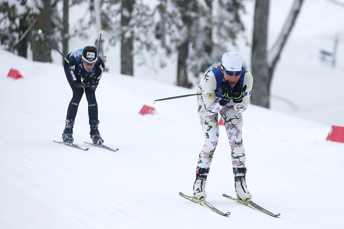 Коралин Томас Хюге (Франция). Лыжные гонки, женщины, 10 км. III Зимние Всемирные военные игры. Лыжно-биатлонный комплекс «Лаура», Сочи, Россия. 24 февраля 2017. Фото Alexander Safonov/CISM2017Coraline THOMAS HUGUE (France). Cross Country Skiing, Women, 10 km. 3rd CISM World Winter Games. Laura Cross-Country Ski&Biathlon Centre, Sochi, Russian Federation. February 24, 2017. Photo by Alexander Safonov/CISM2017